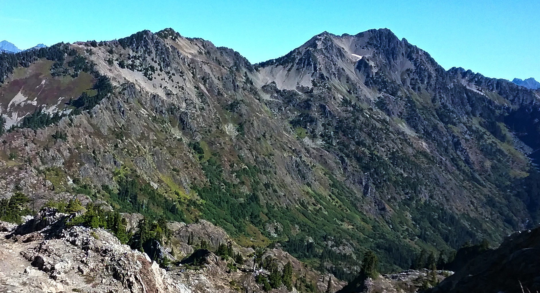 Mounts Henderson (left) and Skokomish seen from Mount Gladys